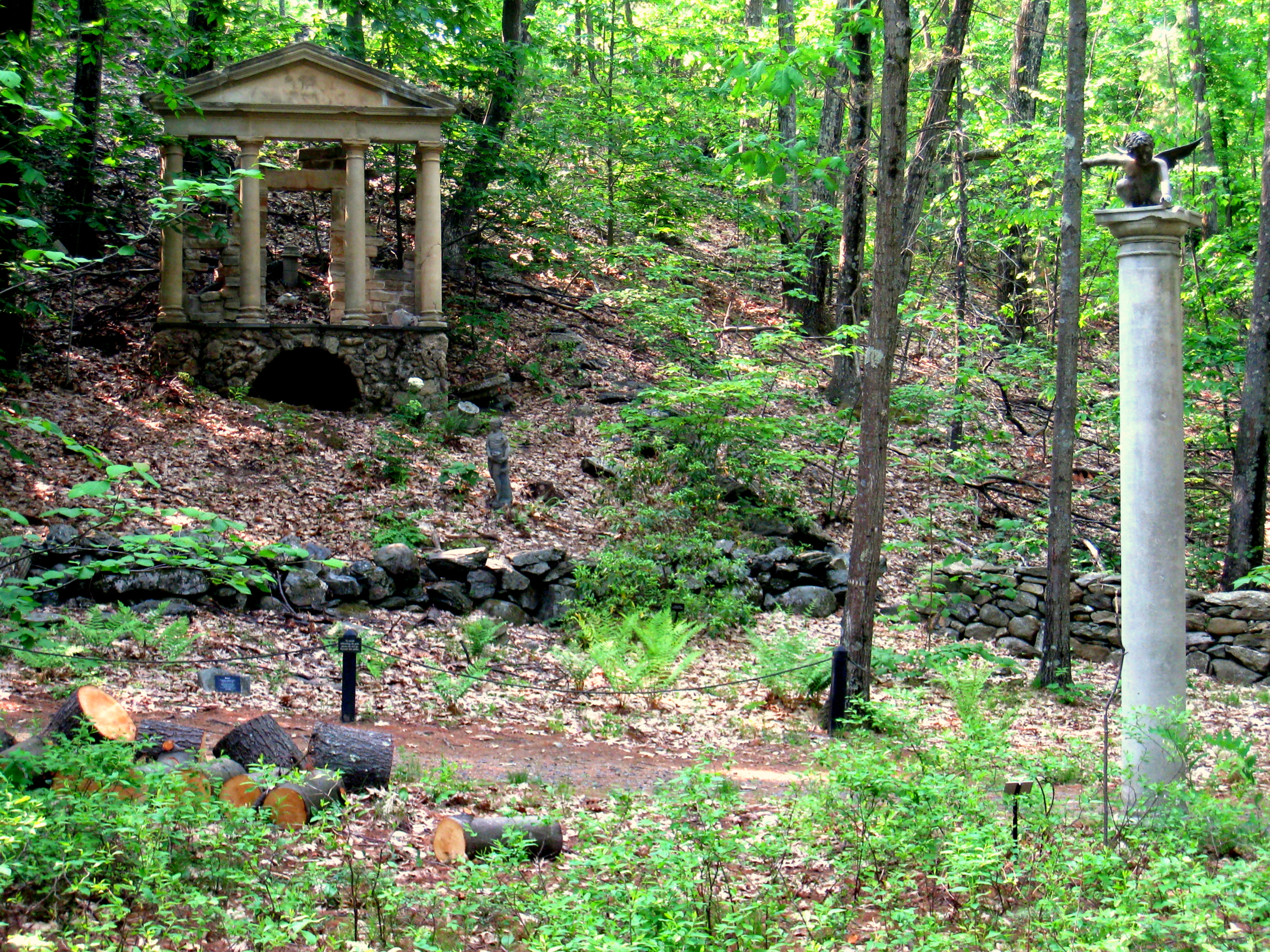 Folly at the Tower Hill Botanic Garden, Boylston, Massachusetts, USA.